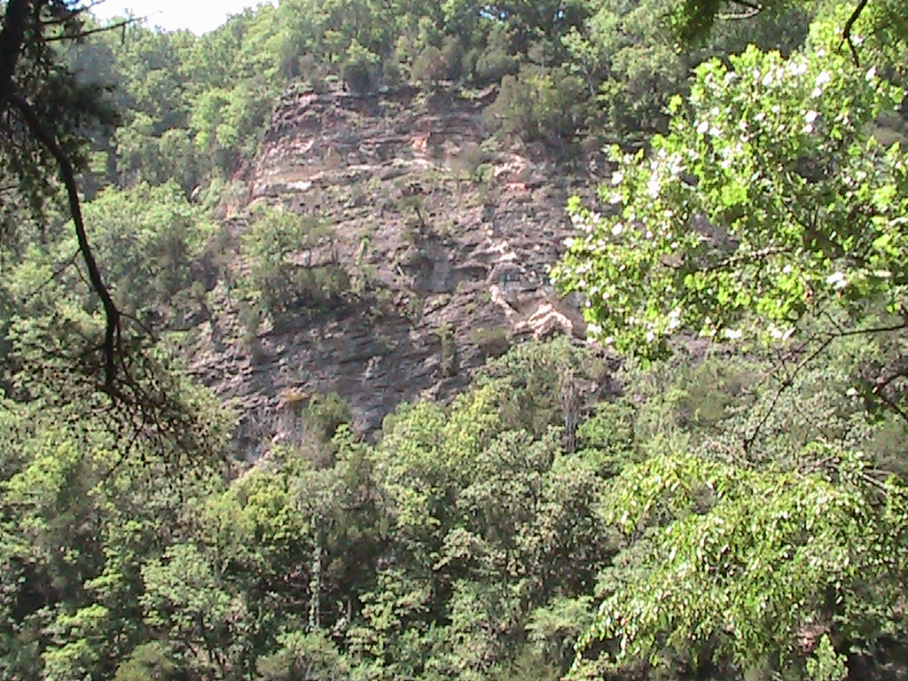 A photograph partially showing the upper section of the Bee Cliff approximately 100 meters above and adjacent to the Watauga River southeast of Elizabethton, Tennessee (and immediately downstream of the Bee Cliff Rapids).